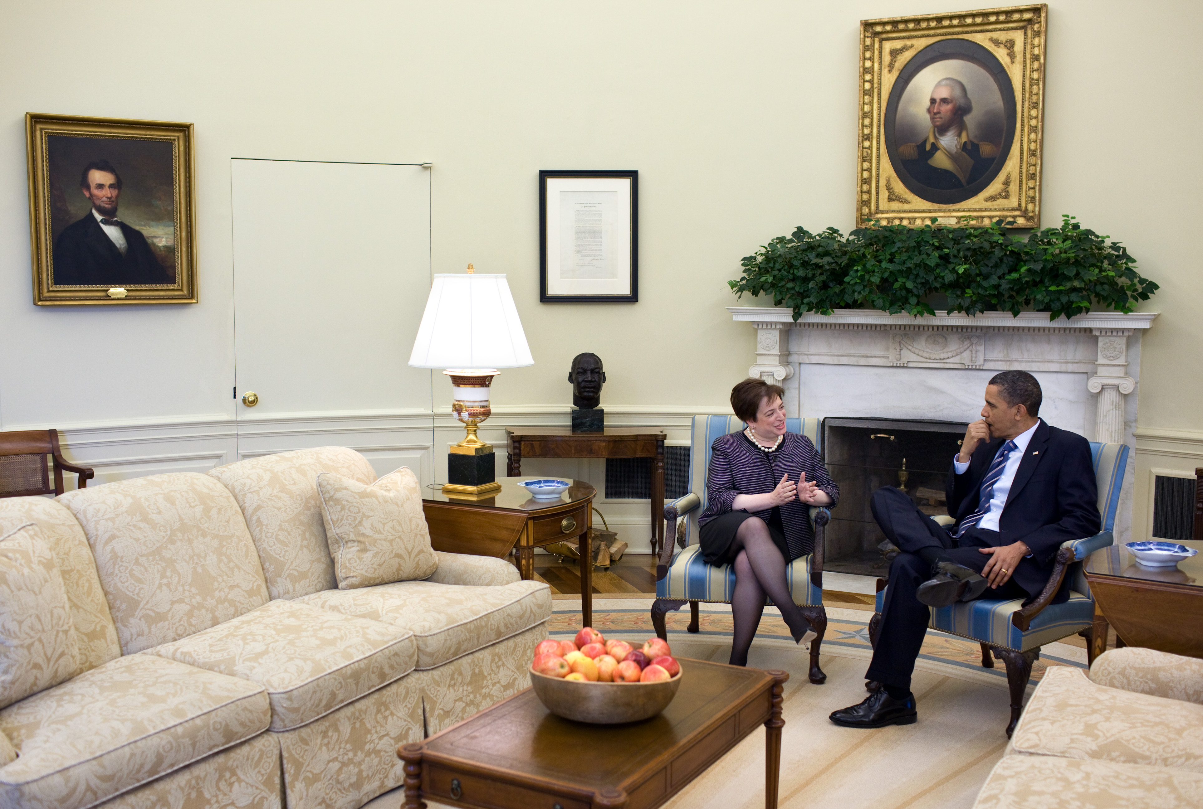 President Barack Obama meets with Solicitor General Elena Kagan in the Oval Office last month.